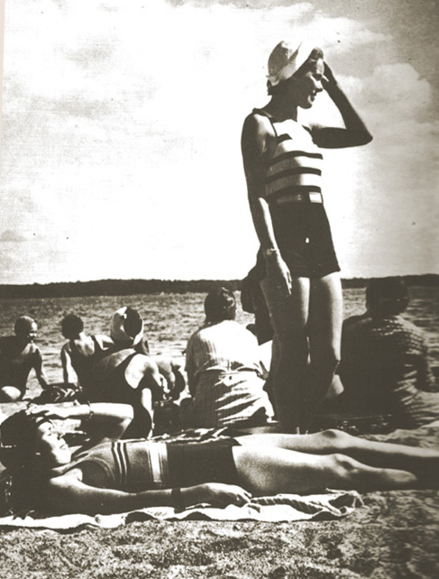 Hietaniemi beach 1929